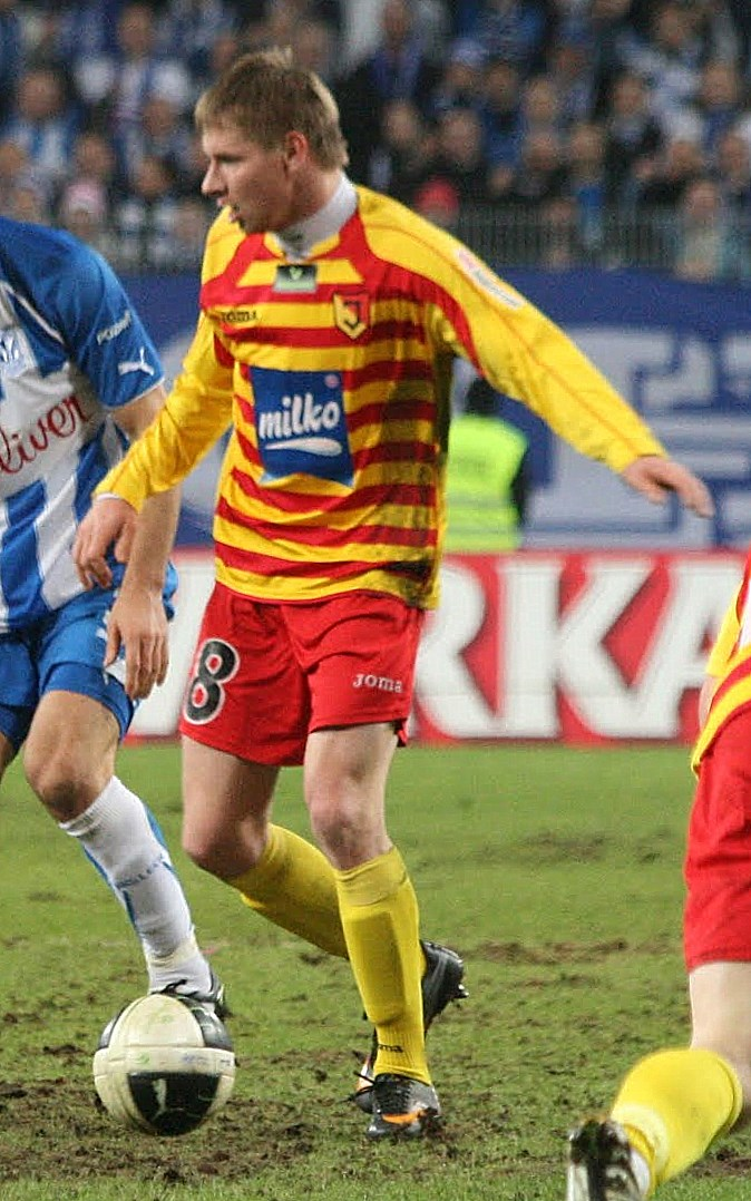 Polish football player Tomasz Kupisz